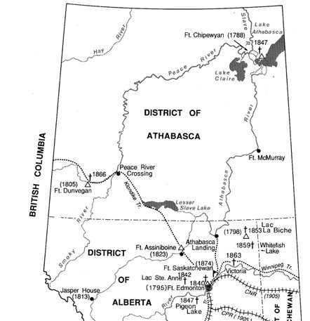 Alberta During the Territorial Period (1870-1905) Adapted from Alberta:A New History By Palmer and Palmer.